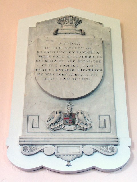 Interior of the Church of St Helen, Saxby There are memorials in the church to the 6th, 7th and 8th Earls of Scarborough and the 7th Countess. This is to Richard Lumley Sanderson, the 6th Earl of Scarborough and like the rest of the family his remains are deposited in a vault beneath the centre of the church.